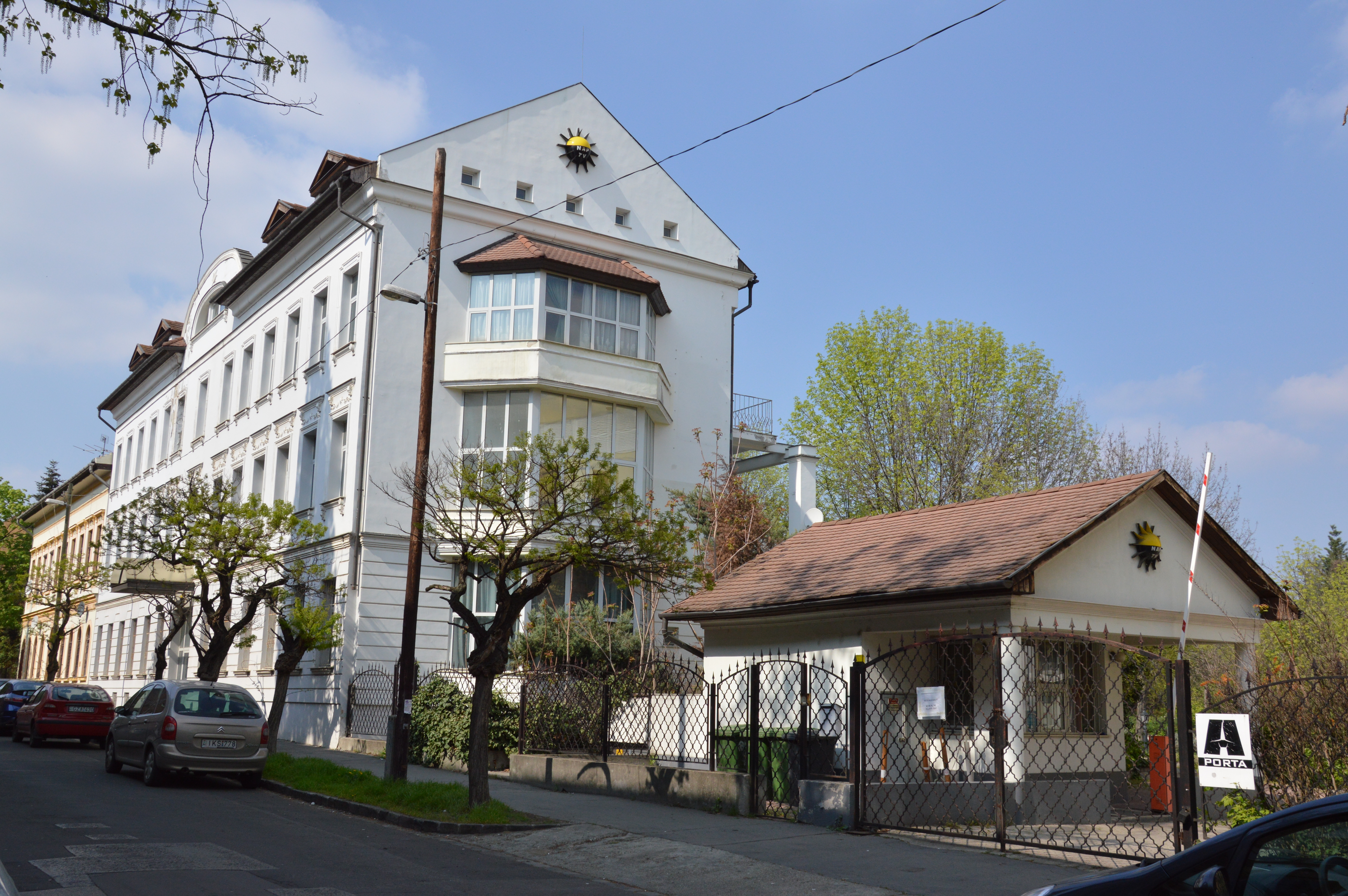 Former buildings of the now defunct Nap TV at Angol utca 67-69, District XIV, Budapest, Hungary